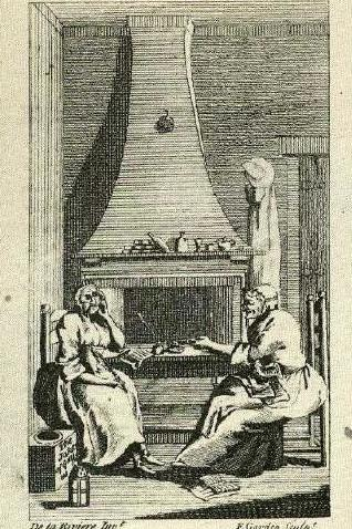 Title page to Christopher Smart's magazine, The Midwife.